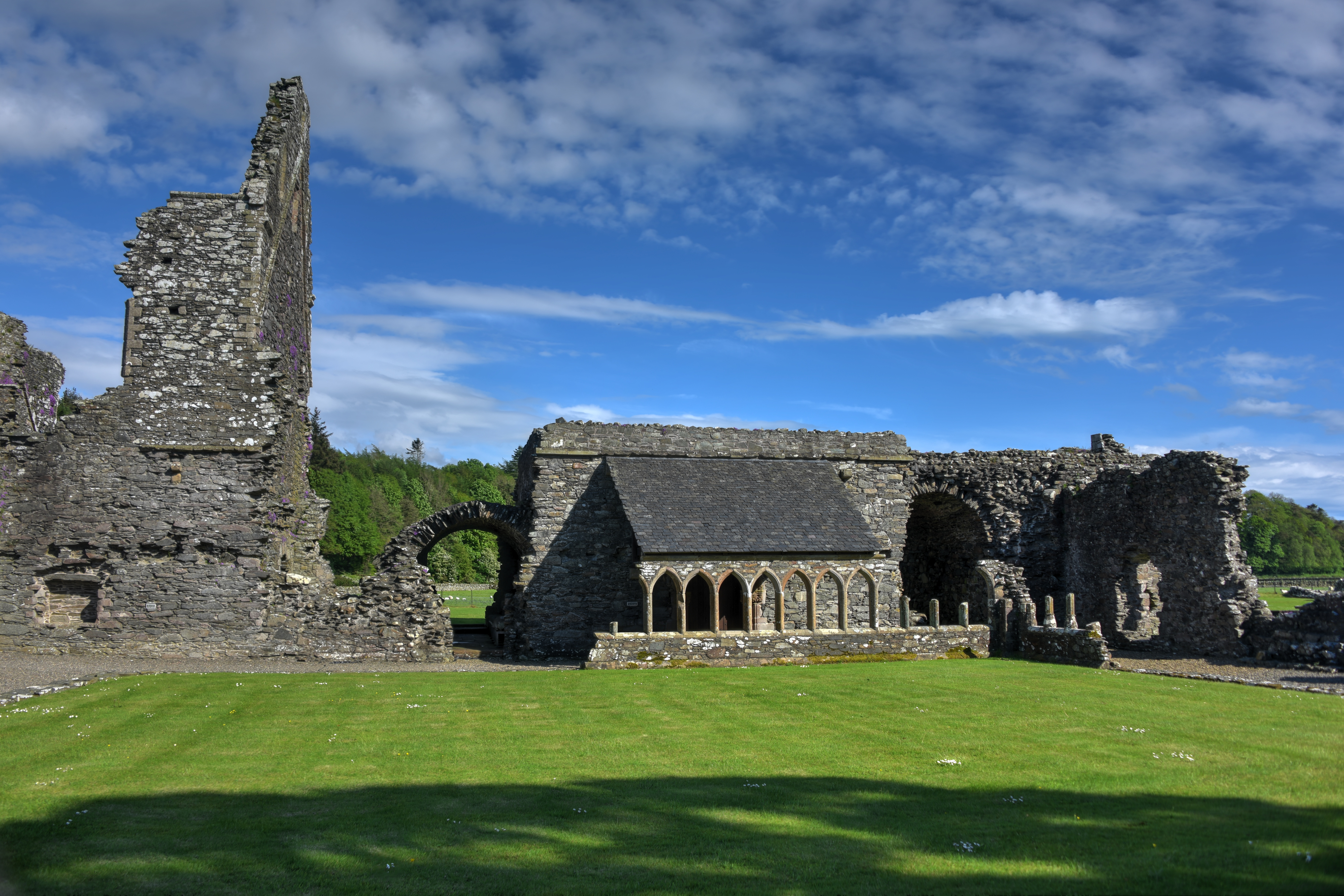 The ruins of a medieval Cistercian abbey in Galloway.